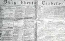 Boston, Massachusetts, USA